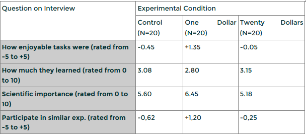 paradigm table